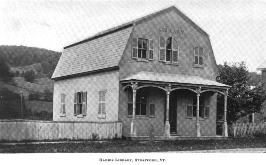 Library in Vermont